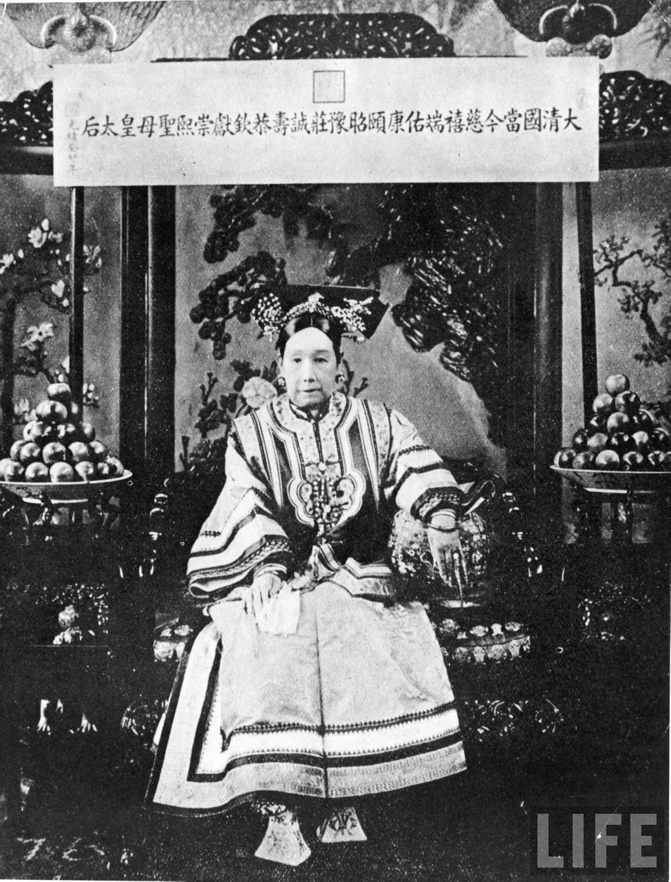 Dowager Empress of China Tzu Hsi (1835-1908). Photograph taken in China in 1903.